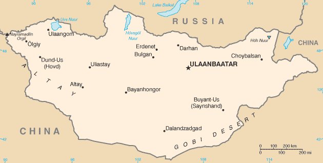 Map of Mongolia (English text) showing major towns.